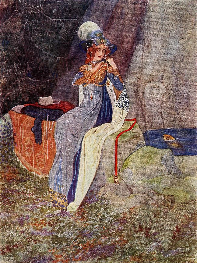 Illustration by Czech painter Artuš Scheiner for a Czech national fairy tale (from a collection by Božena Němcová) Česky: Ilustrace Artuše Scheinera k pohádce Boženy Němcové O princezně se zlatou hvězdou na čele